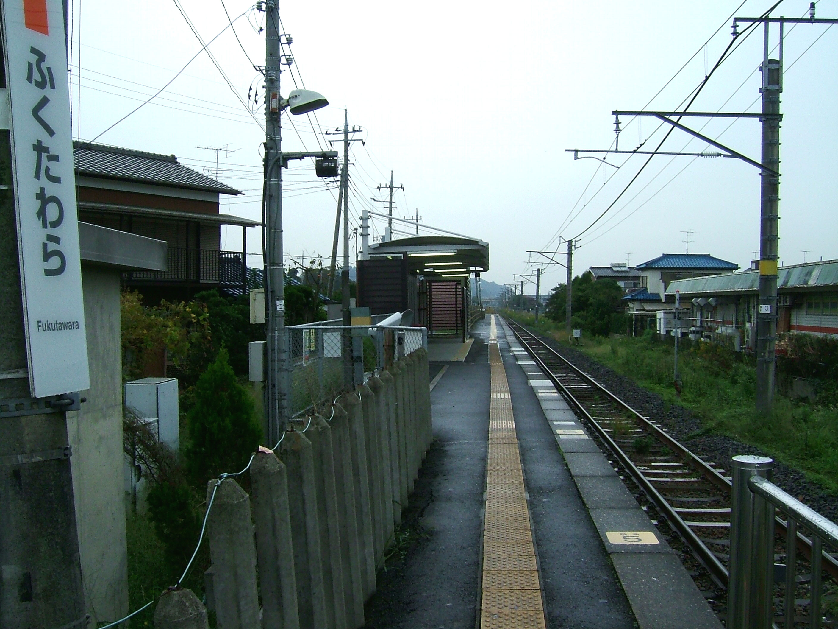 Fukutawara Station on the Togane Line